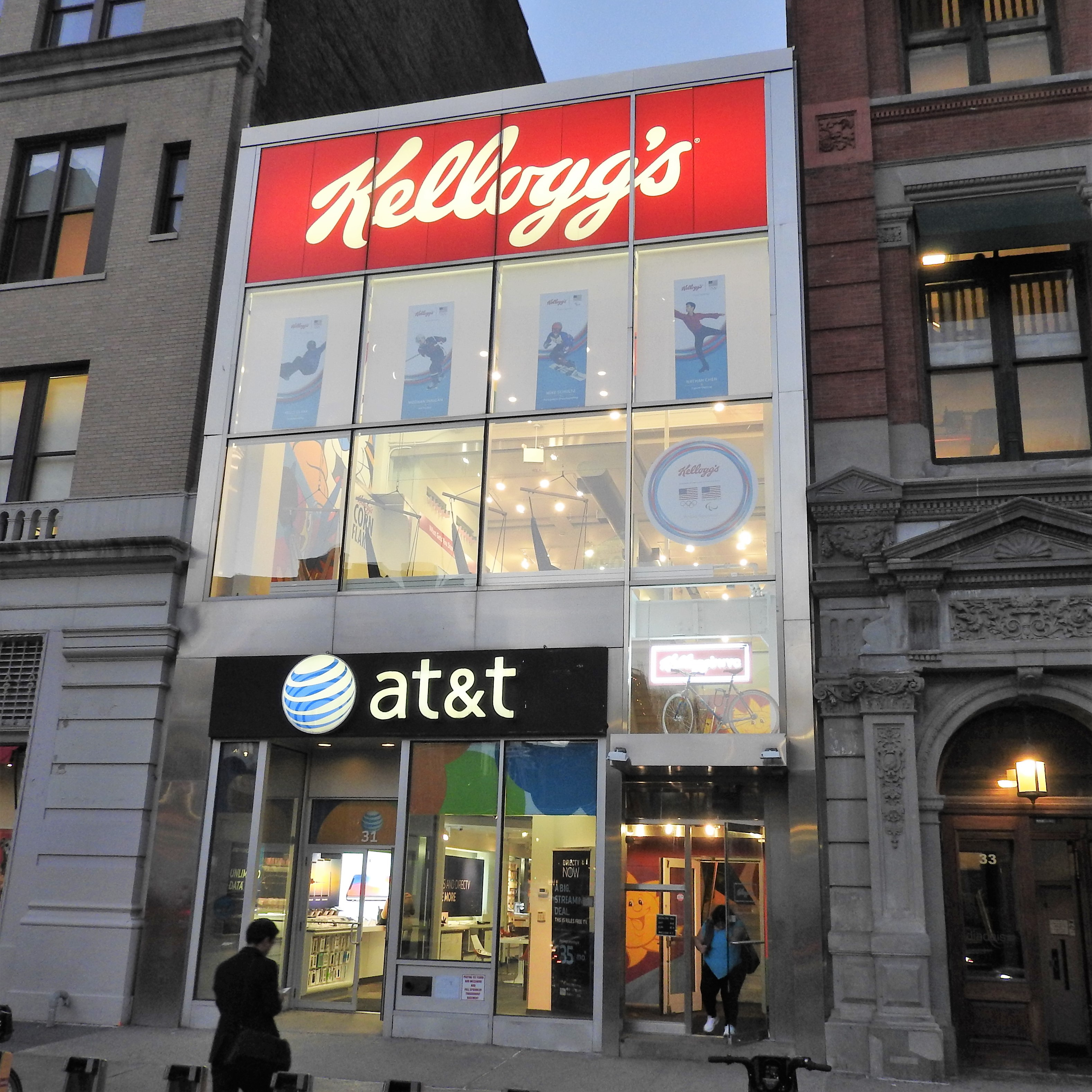 Looking north from Union Square at Kellogg's Cafe at sunsed